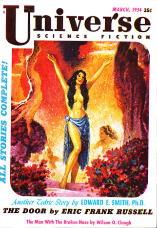 Cover of Universe Science Fiction, January 1954